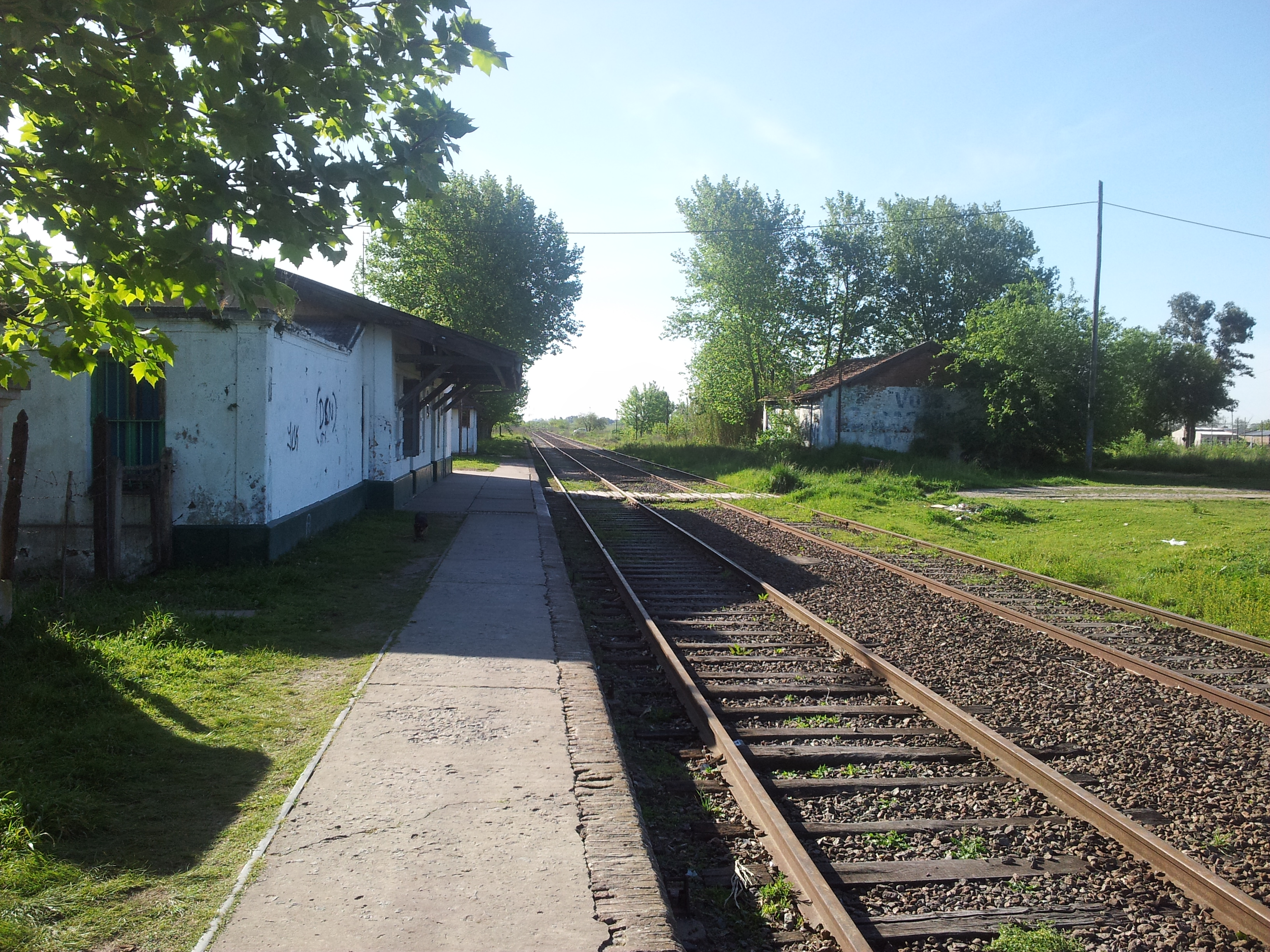 Domselaar train station from the side